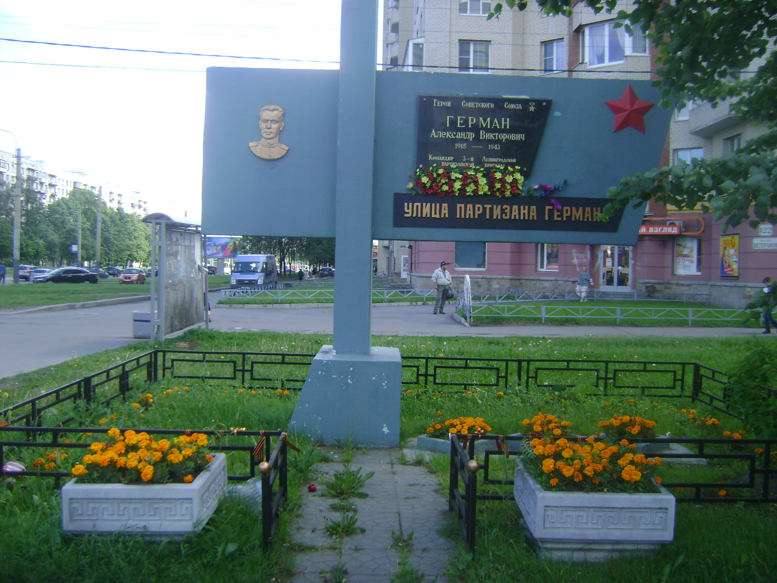 Partisana Germana Street (monument)